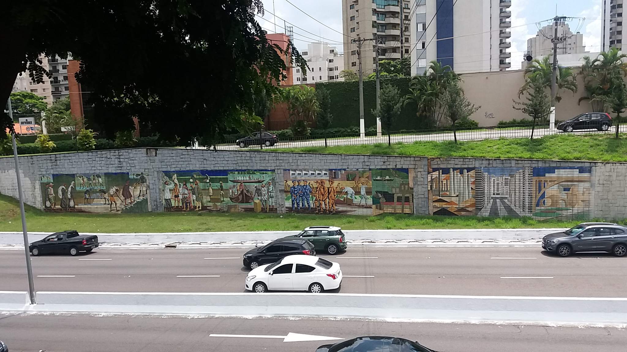 General view of "Sem Título" by Clovis Graciano, in São Paulo, Brazil.